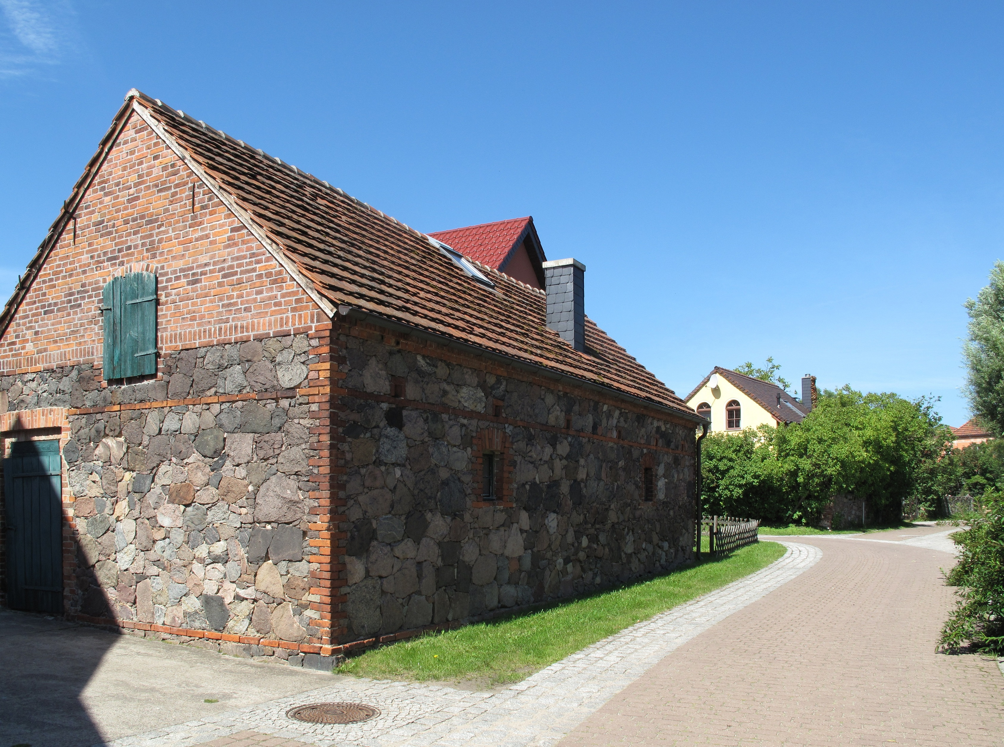 Fieldstone building in Pritzhagen. Pritzhagen is a village of the municipality Oberbarnim in the District Märkisch-Oderland, Brandenburg, Germany. It is situated in the Märkische Schweiz Nature Park. The village green with its pond and the perimeter fieldstone-walls was extensively renovated in 2004.